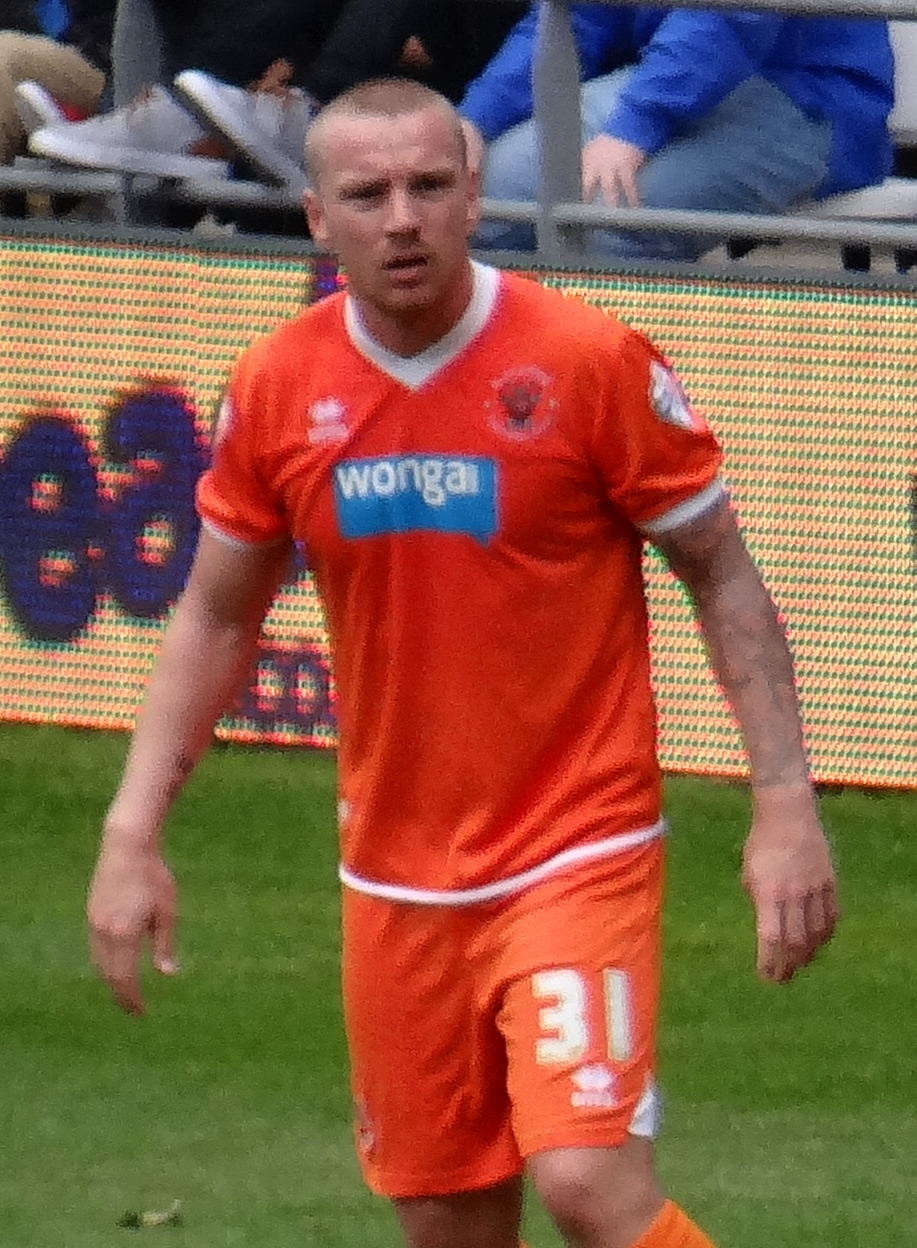 Jamie O'Hara playing for Blackpool against Cardiff City at Cardiff City Stadium on 25 April 2015